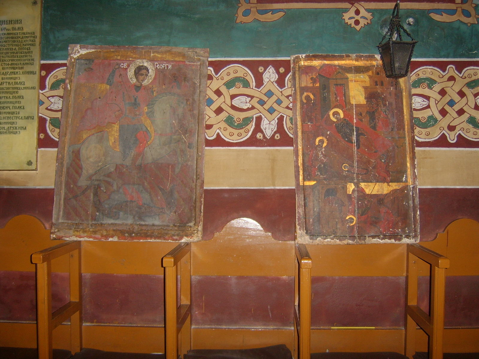 Icons in the church in Levunovo, Bulgaria